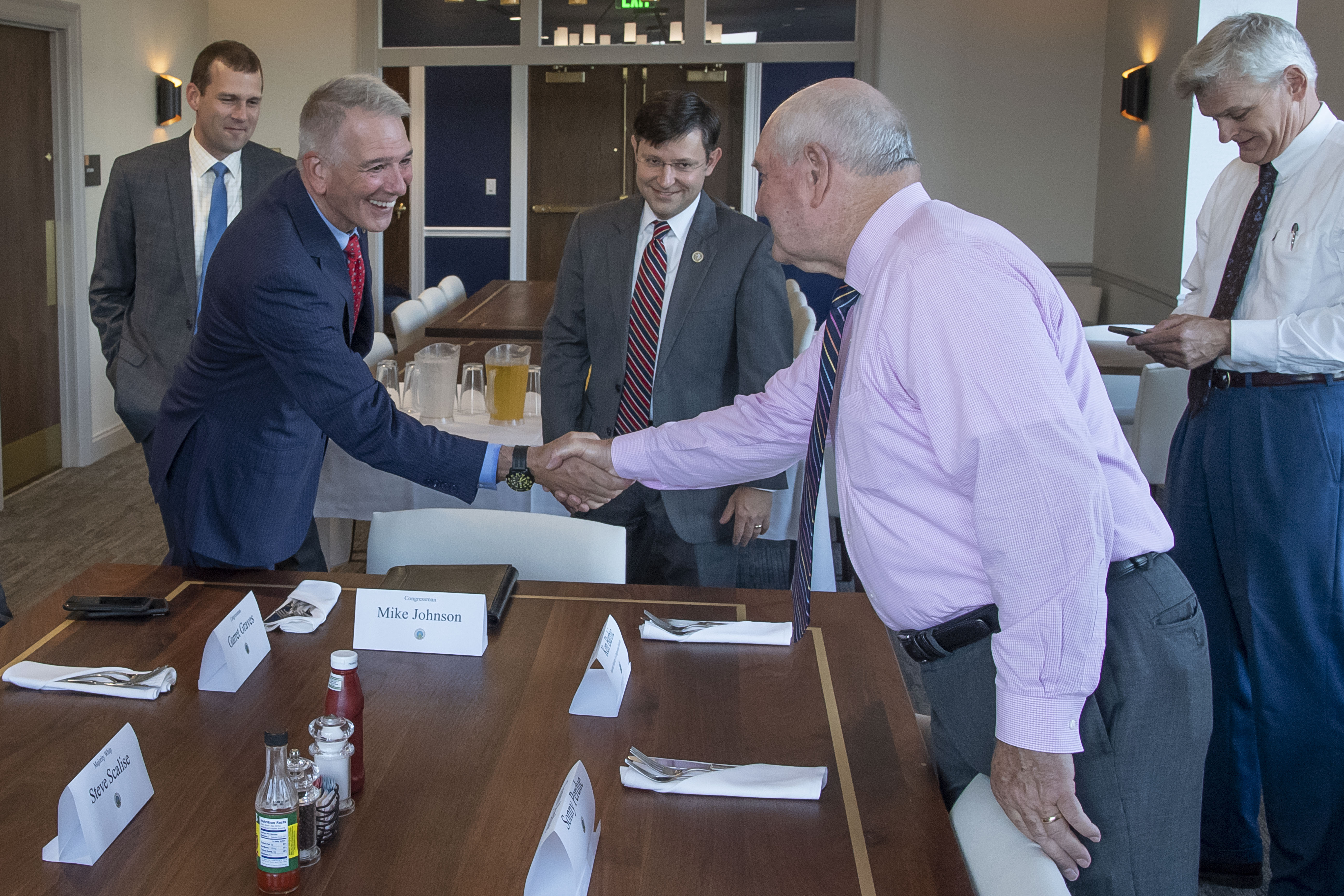 U.S. Department of Agriculture (USDA) Secretary Sonny Perdue welcomes U.S. Representatives Ralph Abraham (R-LA) and other congressman from Louisiana to a morning breakfast in the Lincoln Dining Room at USDA Headquarters in Washington, D.C., September 6, 2018. Photo by Preston Keres